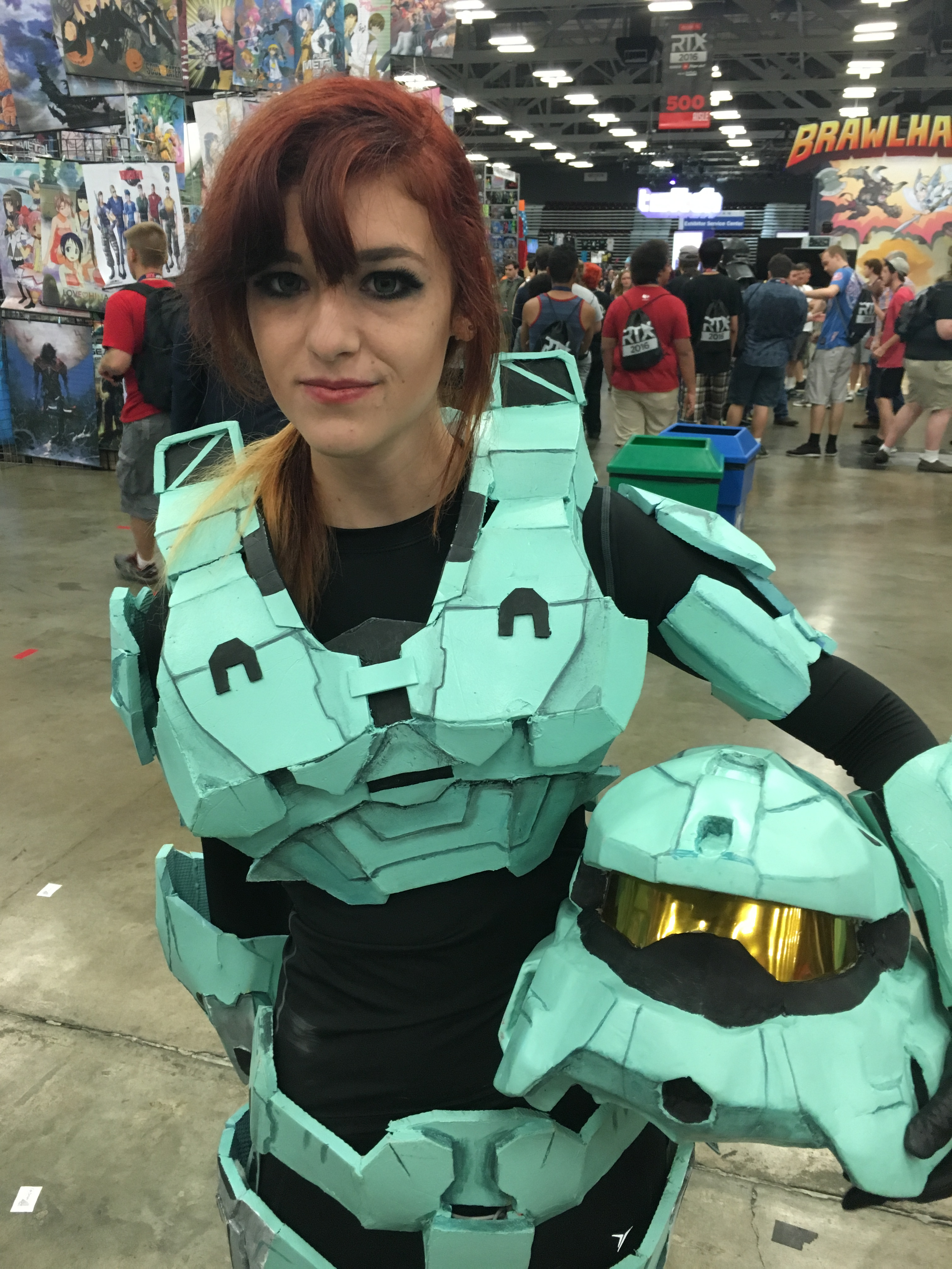 Agent Carolina Cosplayer at RTX Taken at RTX 2016.